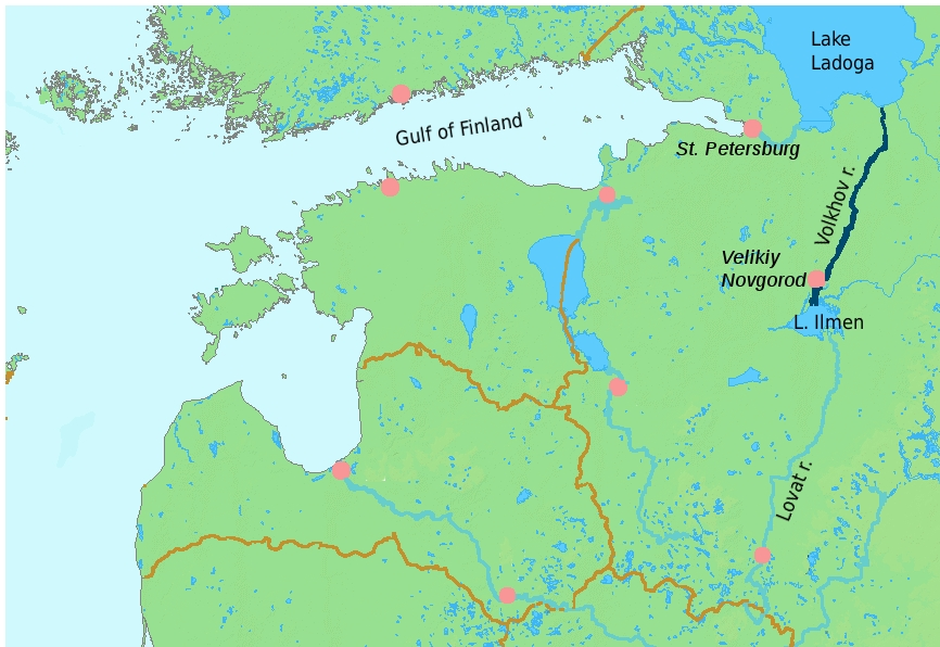 Localization map for the Volkhov river (deep blue).